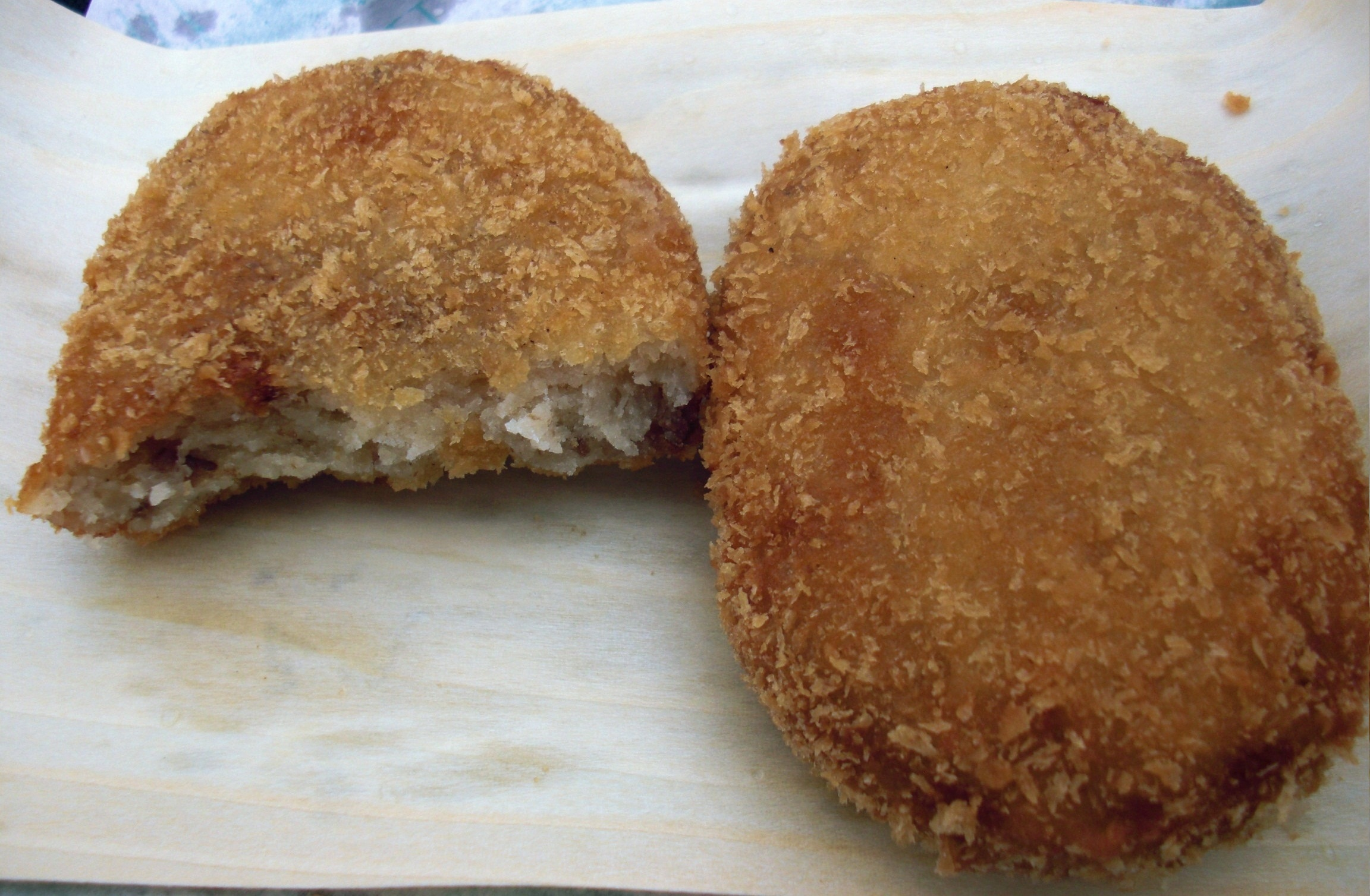 This is Takaoka korokkes that was made by Tengu no Niku Ohtemachi shop in Takaoka, Toyama, Japan.